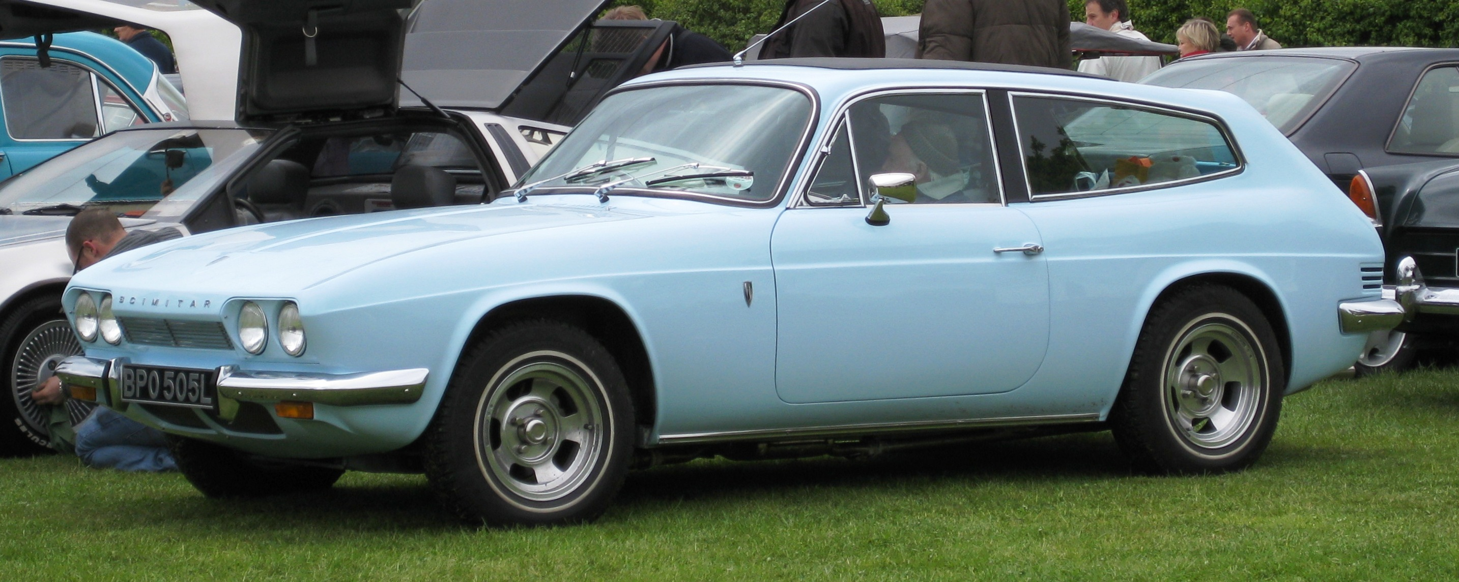 Reliant Scimitar GTE 3-litre at Battlesbridge UK tax office data Date of First Registration: 11 01 1973 Year of Manufacture: 1972 Cylinder Capacity (cc): 2994